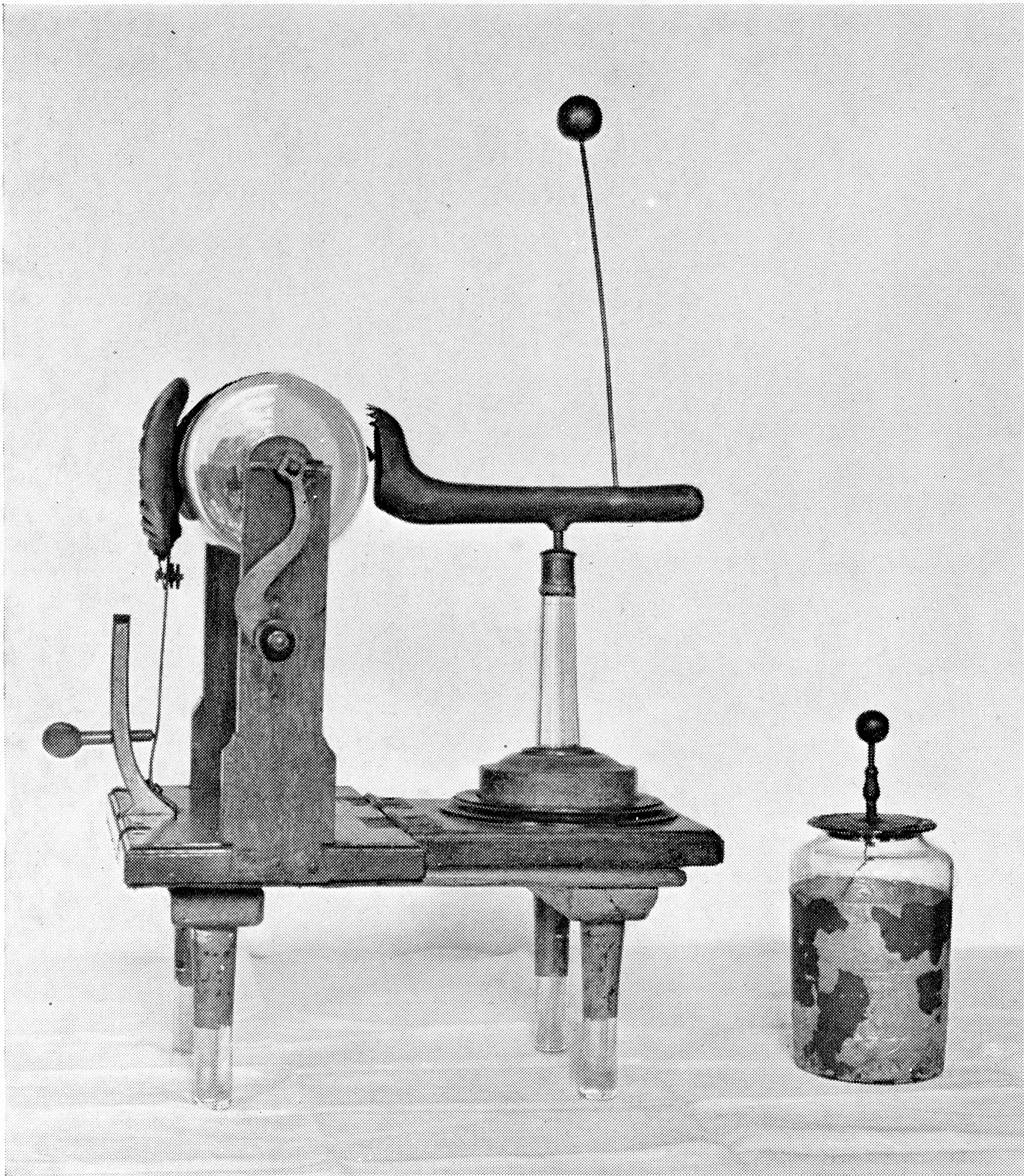 Electrical machine designed by John Wesley for the treatment of melancholia Wellcome Images Keywords: Electrotherapy; John Wesley